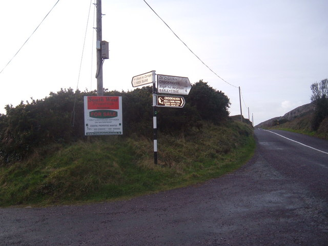 Road Junction between Goleen & Crookhaven on the R591